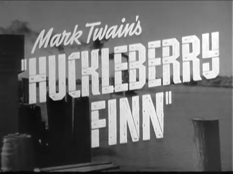 The Adventures of Huckleberry Finn, by Richard Thorpe (1939)